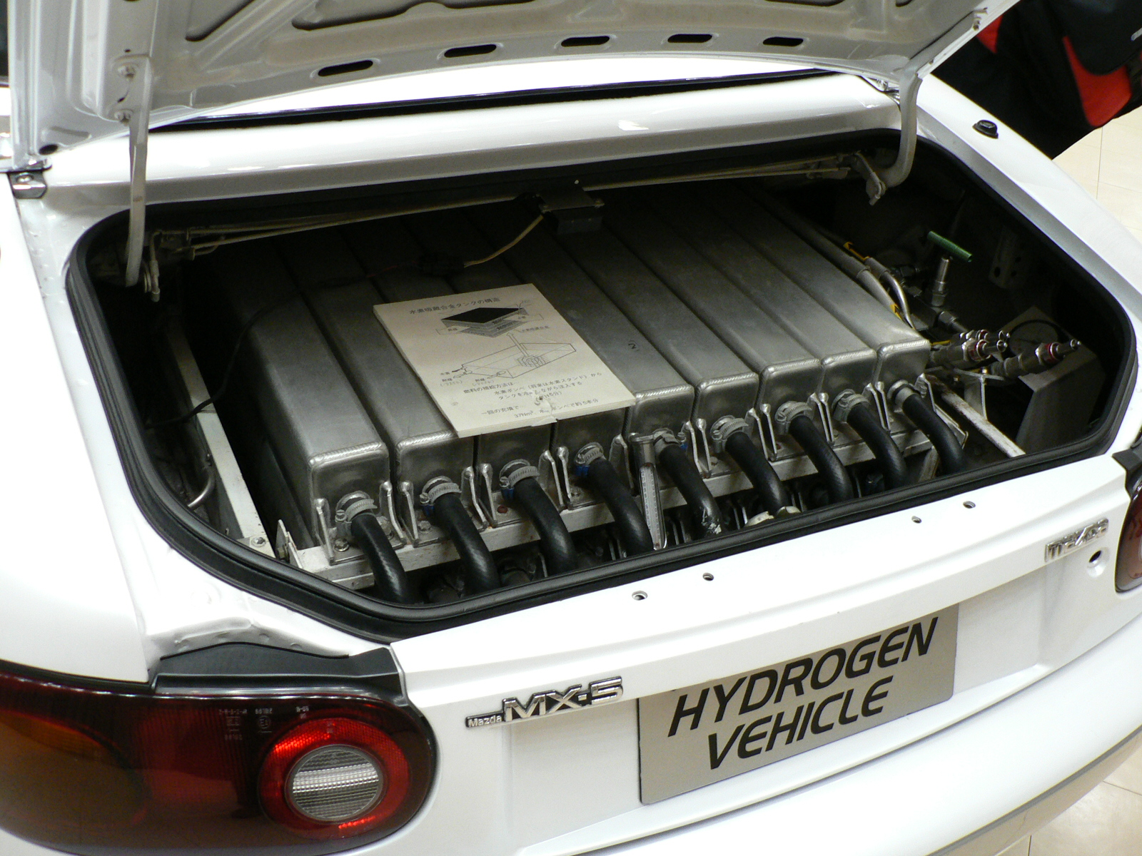 MAZDA MX-5 Hydrogen Vehicle